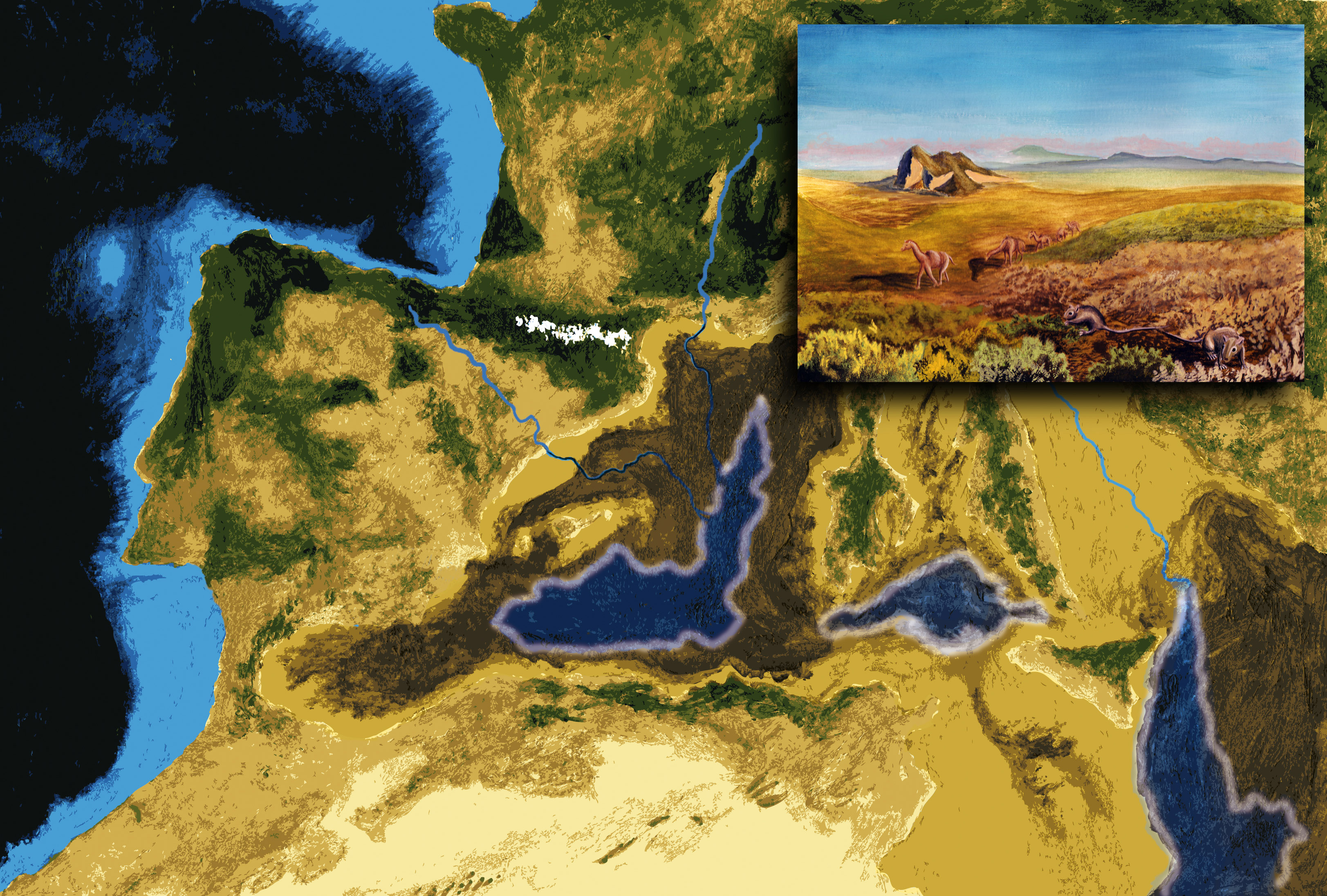 Closing the last channel connecting the Mediterranean and the Atlantic, leading to the first drying during the Messinian salinity crisis. B and C) Rivers which previously drained to the Mediterranean excavated erosion gorges in the continental margins. D) evaporation of the Mediterranean led to saturation of the salt in its waters and precipitation of salt layers over a kilometer thick. E) In the deeper parts of the sea were lakes where water collected from the Mediterranean basin evaporated. The box recreates the mammalian transit across the Strait.